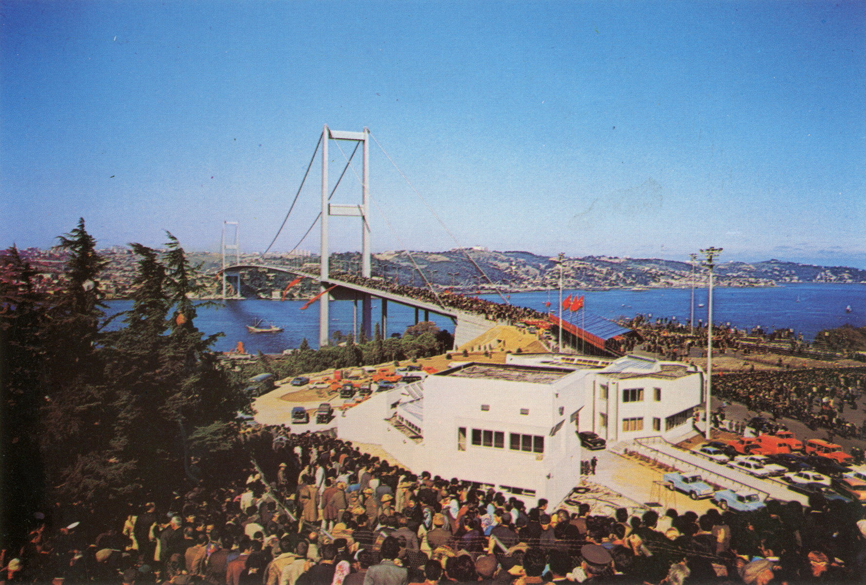 The Bosphorus Bridge (also known as The First Bridge), is one of three suspension bridges that cross the Bosphorus. By the 1950s, İstanbul’s rapidly growing population and heightened traffic between the Asian and European sides made this bridge a necessity. Turkish Prime Minister Adnan Menderes initiated the bridge’s realization in 1960 but this process was interrupted by the military coup of May 27, 1960. Construction eventually began in 1970 and the bridge opened on October 30, 1973 marking the 50th anniversary of the Turkish Republic. In 1978 the bridge was closed to pedestrians. An increasing need for further highways saw the Fatih Sultan Mehmet bridge open in 1988. The construction of a third bridge, inaugurated in 2013, completed in 2016. SALT Research, Photograph Archive Günümüzde Birinci Köprü olarak da bilinen Boğaziçi Köprüsü, İstanbul Boğazı üzerinde yer alan iki asma köprüden biridir. 1950 sonrası İstanbul nüfusu ile Avrupa-Asya arasındaki trafiğin hızla artması, Boğaz’a bir köprü yapılmasını zorunlu hâle getirdi. 1960’ta Adnan Menderes döneminde başlatılan proje, aynı yıl 27 Mayıs’taki ihtilalle kesintiye uğradı. İnşaatı üç yılda tamamlanan köprü 30 Ekim 1973’te, Cumhuriyetin 50. yılı şerefine törenle hizmete açıldı. 1978’de ise yaya trafiğine kapatıldı. Yıllar içerisinde artan trafik ve karayolu ihtiyacı nedeniyle 1988’de Fatih Sultan Mehmet Köprüsü inşa edildi. 2013’te temeli atılan üçüncü köprünün çalışmaları hâlen sürmektedir. SALT Araştırma, Fotoğraf Arşivi